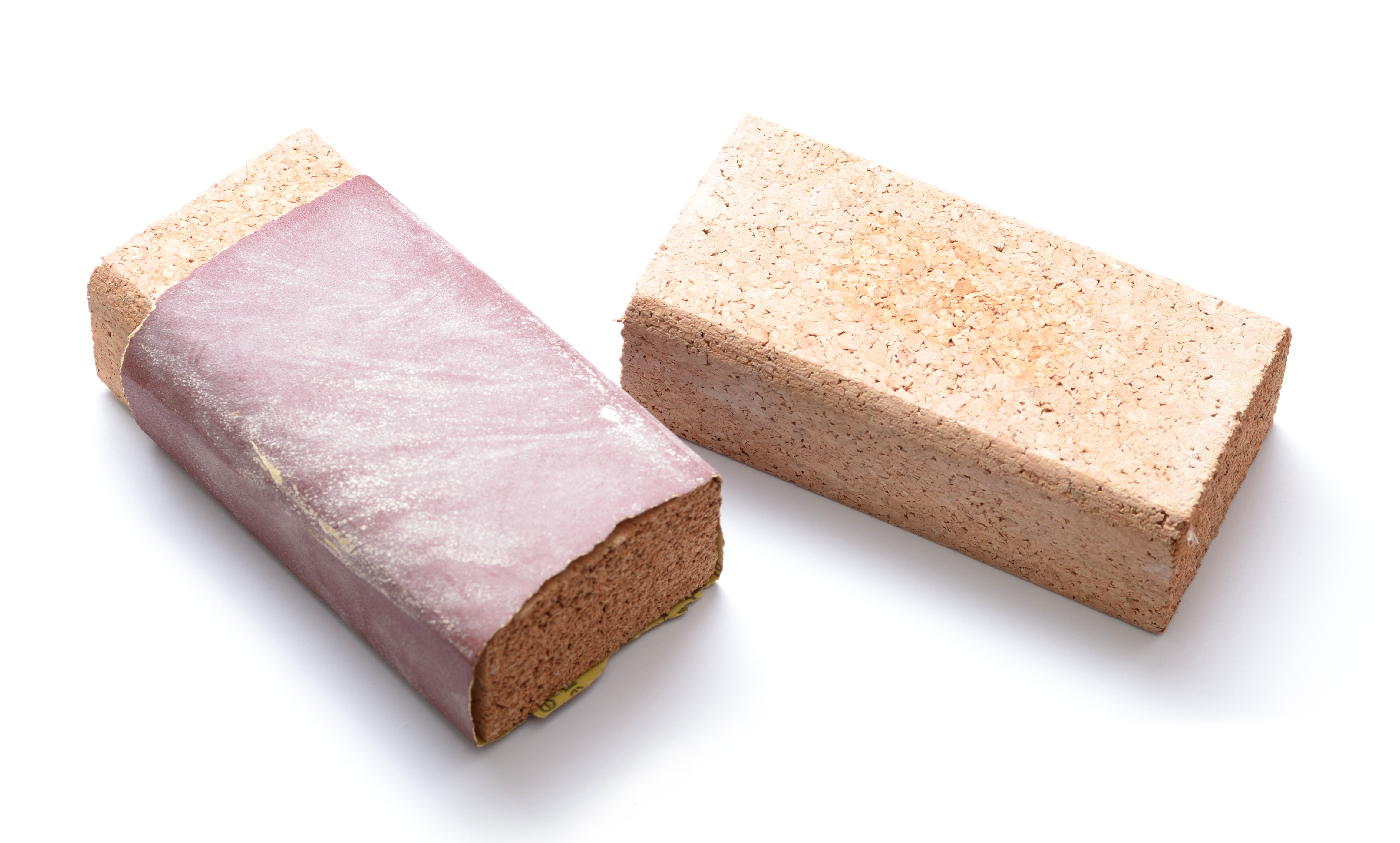 Grinding block of pressed cork